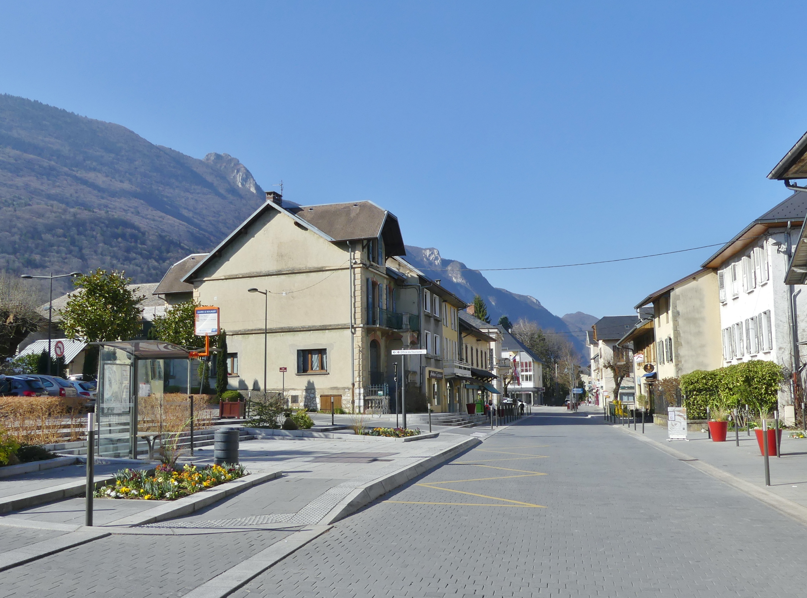 Sight of the center of Le Bourget-du-Lac town, in Savoie, France.